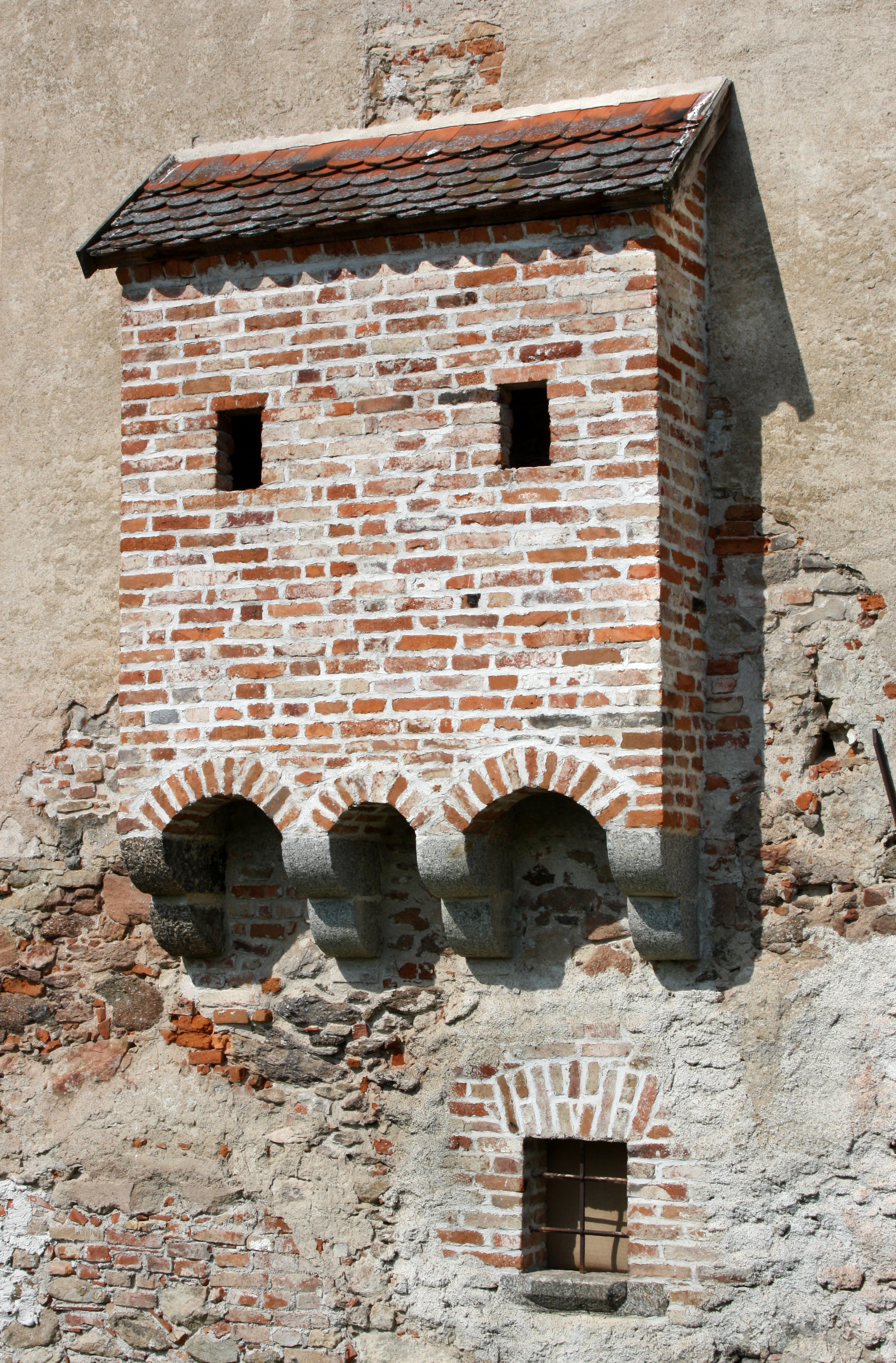 Stránecká Zhoř Castle in Stránecká Zhoř